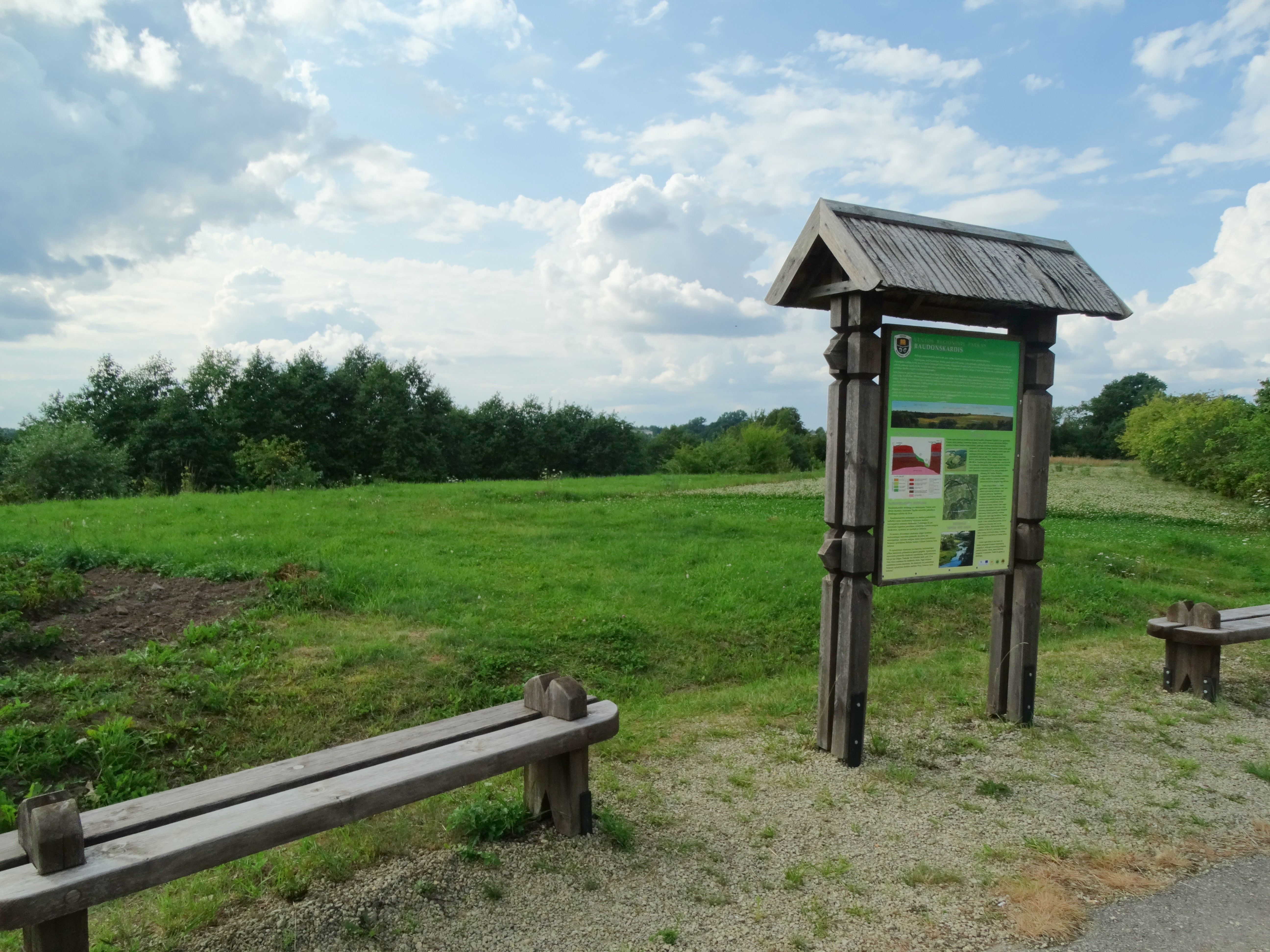 Raudonskardis outcrop, Papilė, Akmenė district, Lithuania